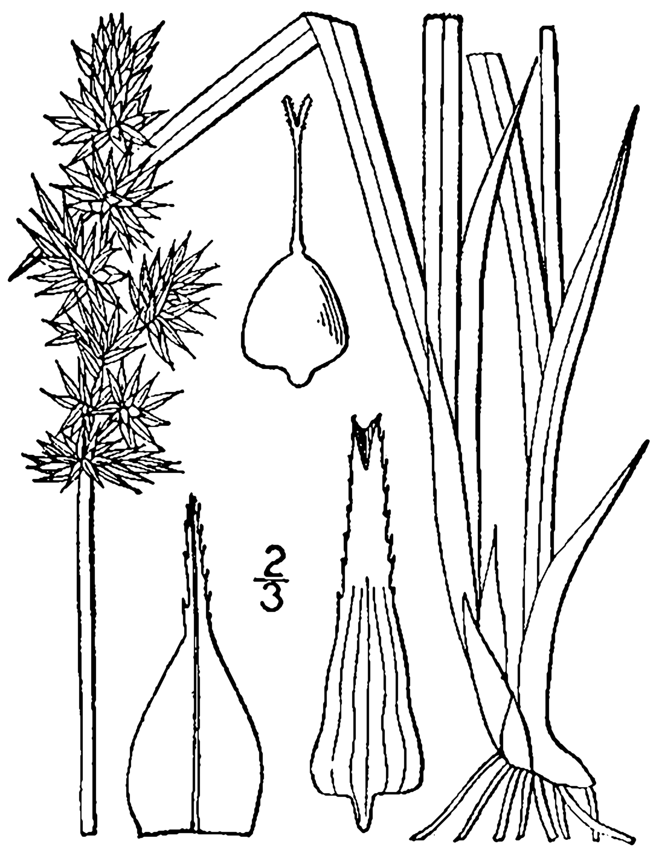 Carex stipata Muhl. ex Willd. - awlfruit sedge